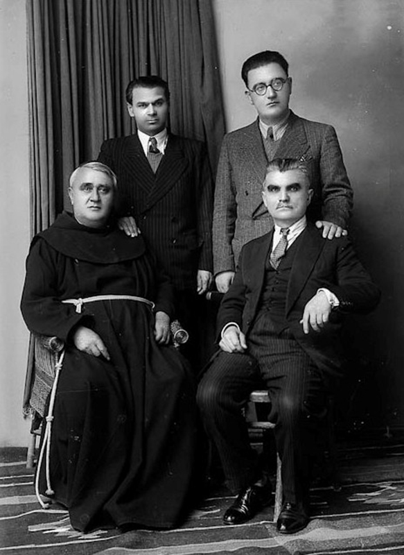 Photography of ( from top left to bottom right): Lasgush Poradeci Ernest Koliqi Gjergj Fishta Aleksandër Stavre Drenova